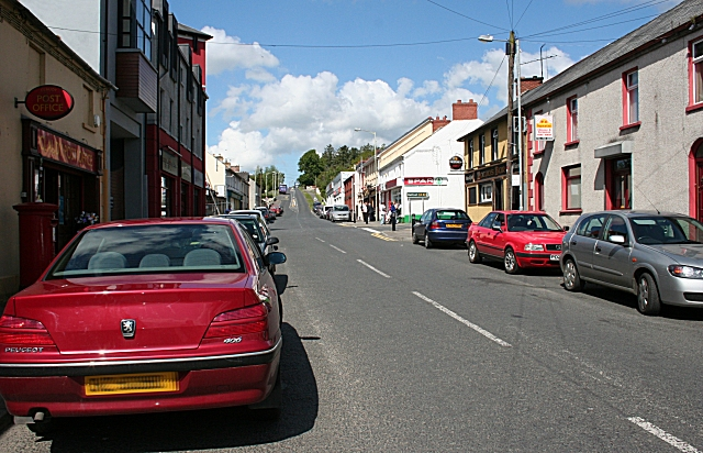 Claudy, near to Claudy and Killaloo, Ireland. The main street of the village.